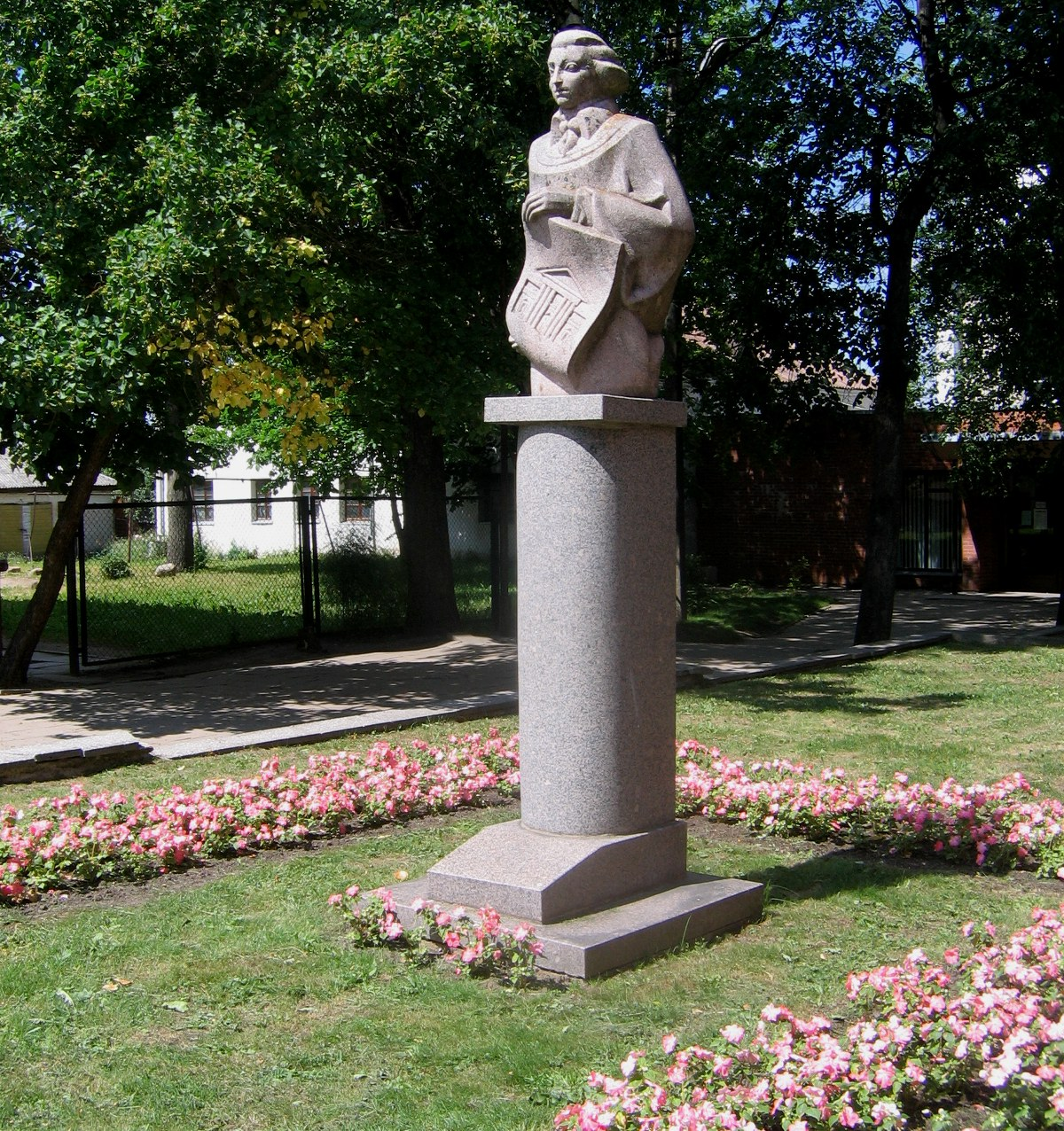 Monument in Kupiškis, Lithuania: architect Wawrzyniec Gucewicz / Laurynas Gucevičius (1753–1798)